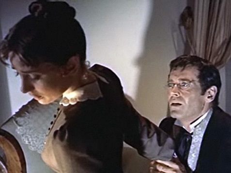 Cropped screenshot of Audrey Hepburn and Henry Fonda from the trailer for the film War and Peace.